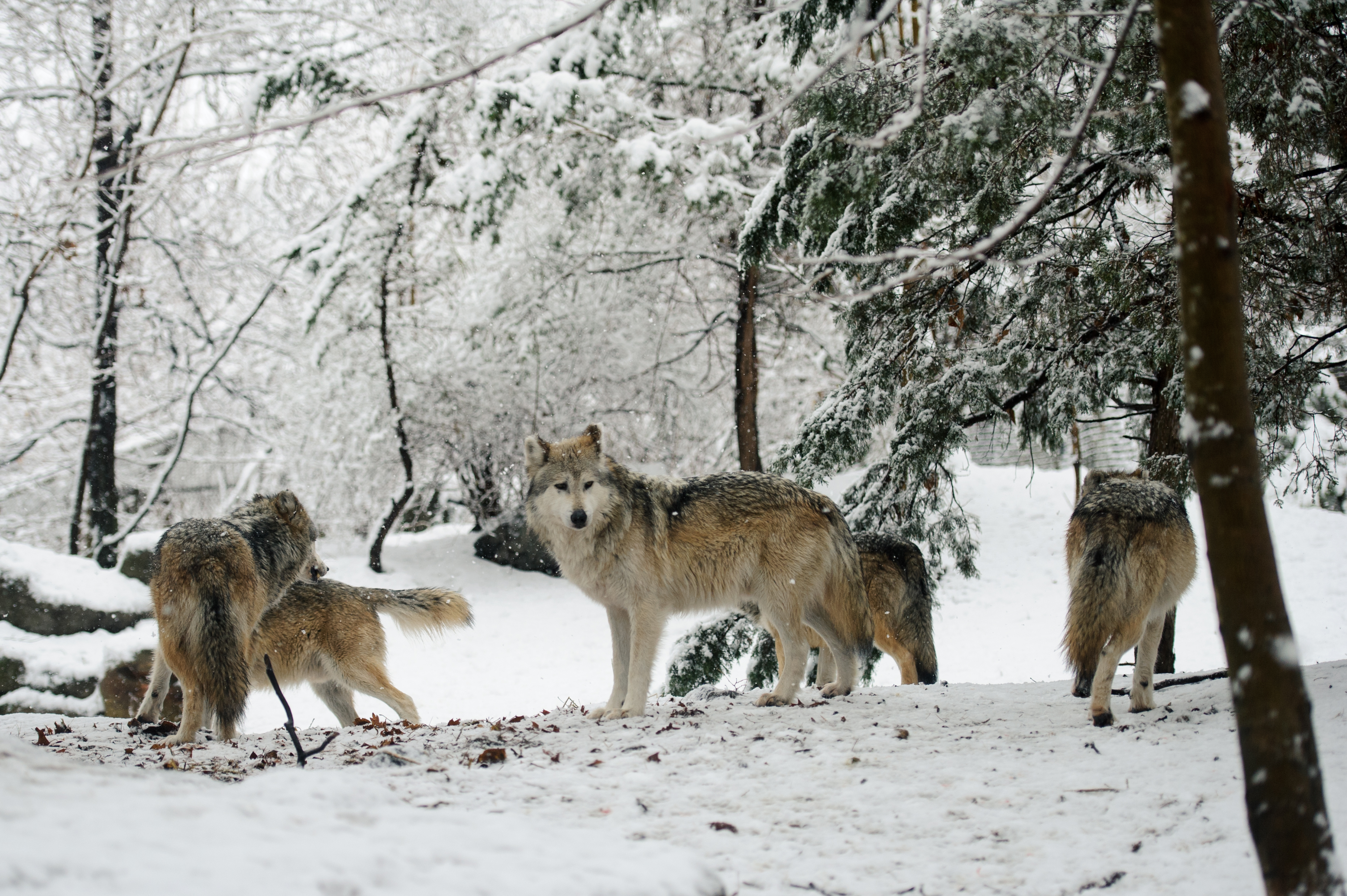 Mexican Wolf Pack